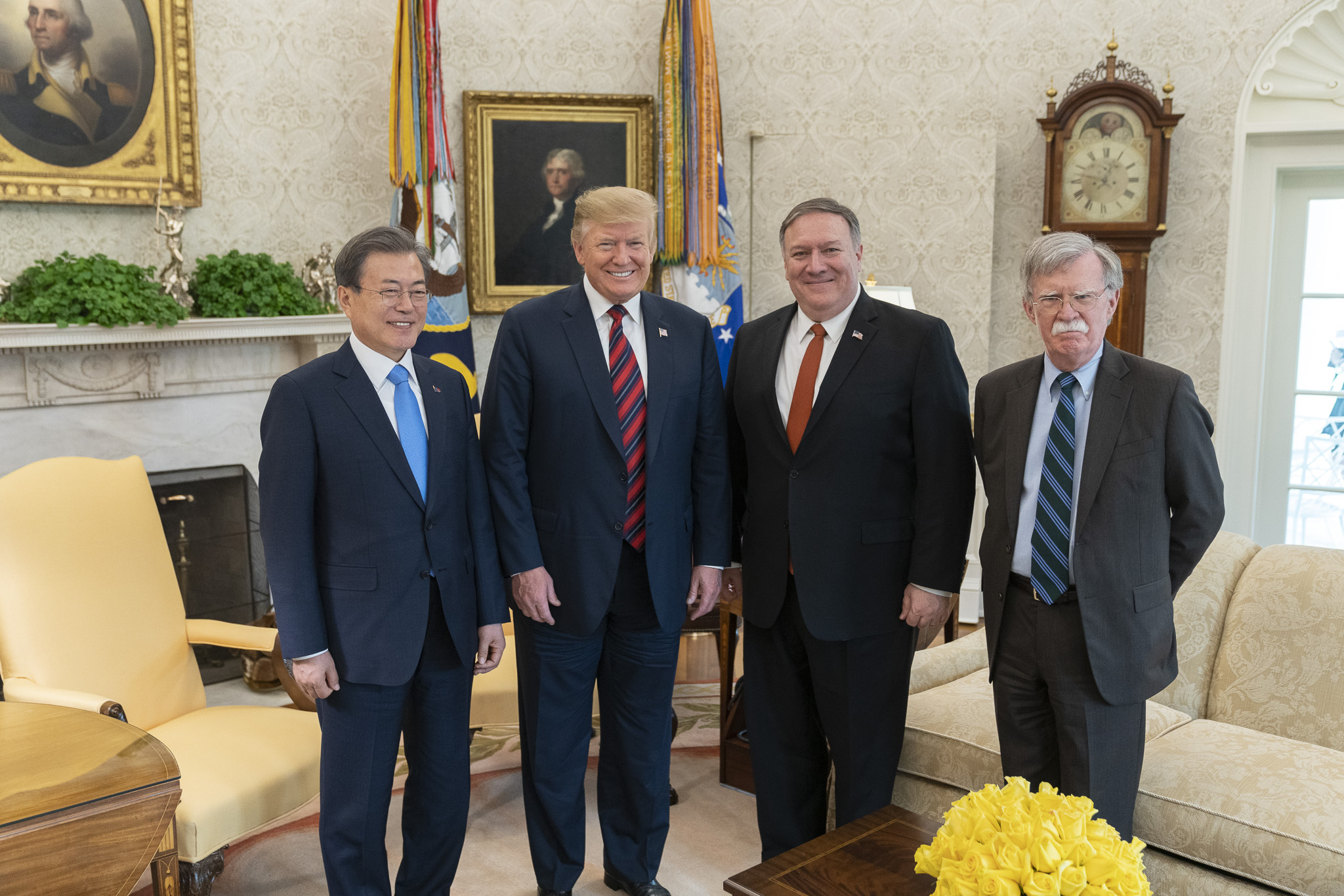 President Donald J. Trump and President Moon Jae-in of the Republic of Korea pose for a photo with Secretary of State Mike Pompeo and National Security Adviser Ambassador John Bolton Thursday, April 11, 2019, in the Oval Office of the White House. (Official White House Photo by Shealah Craighead)